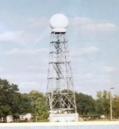 This is the WSR-74C radar commissioned at Springfield, IL on October 16, 1980. It is used for local warning operations, and as a supplement to the national network radar system.